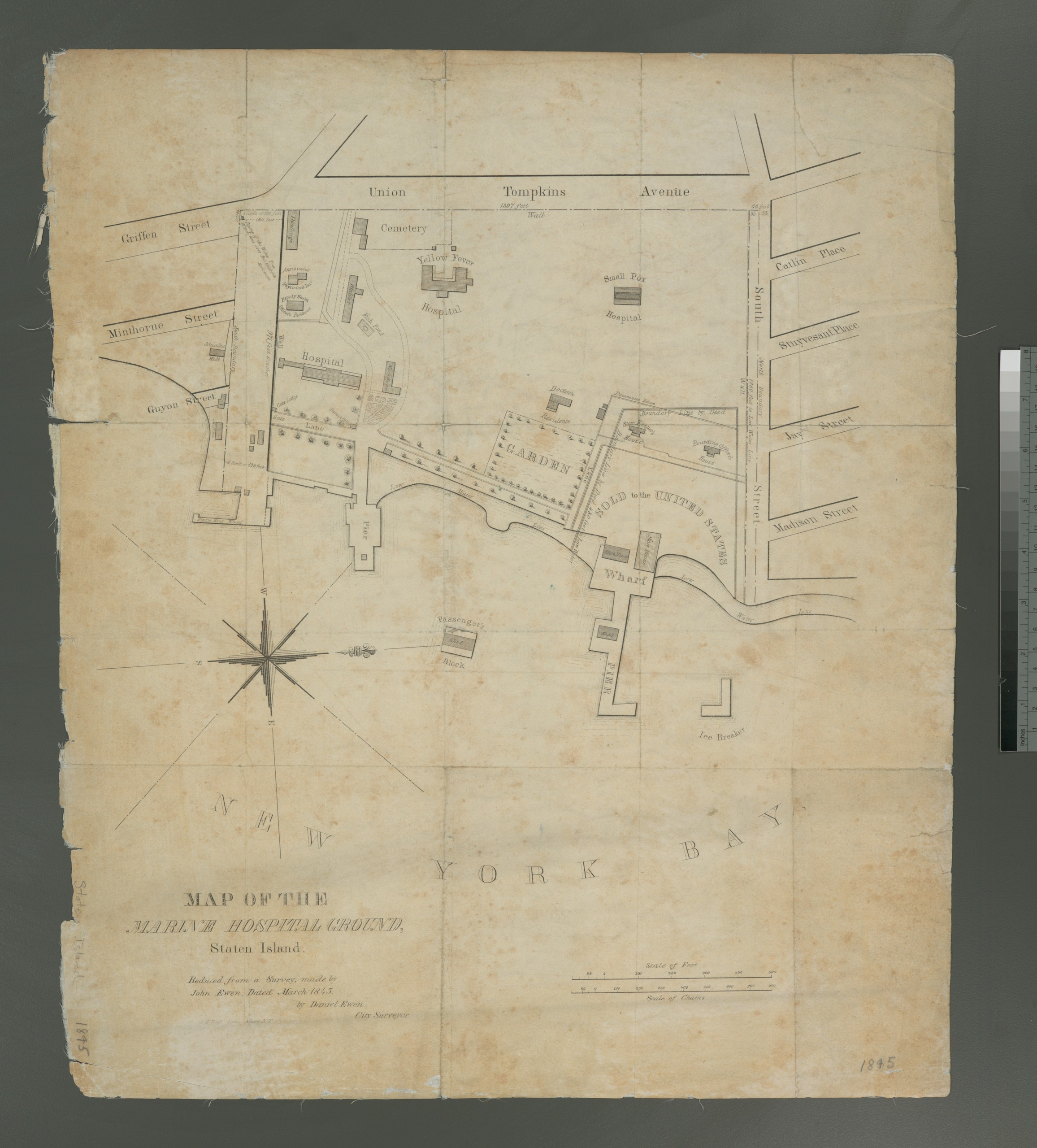 Map of the Marine Hospital ground, Staten Island